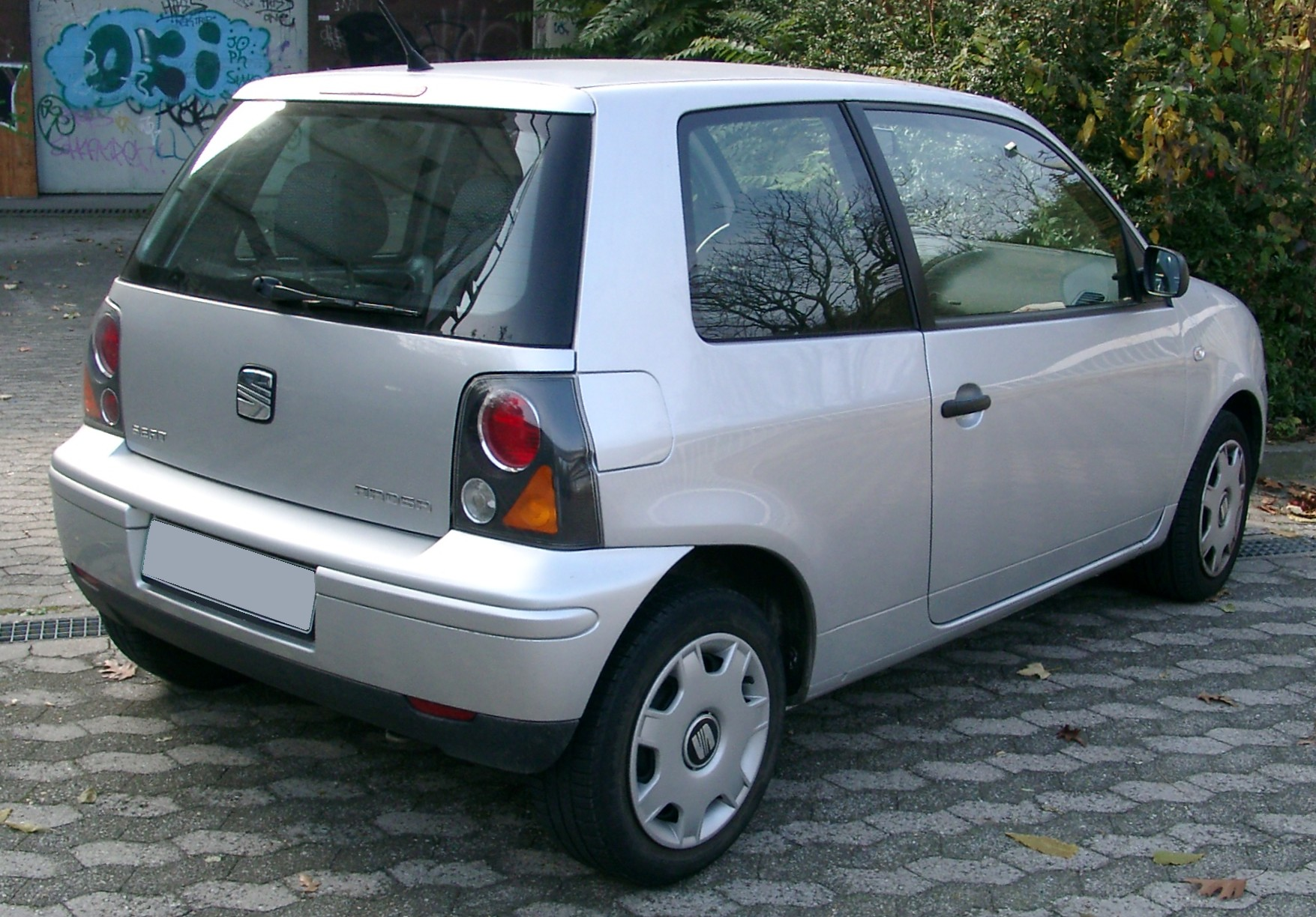 Seat Arosa